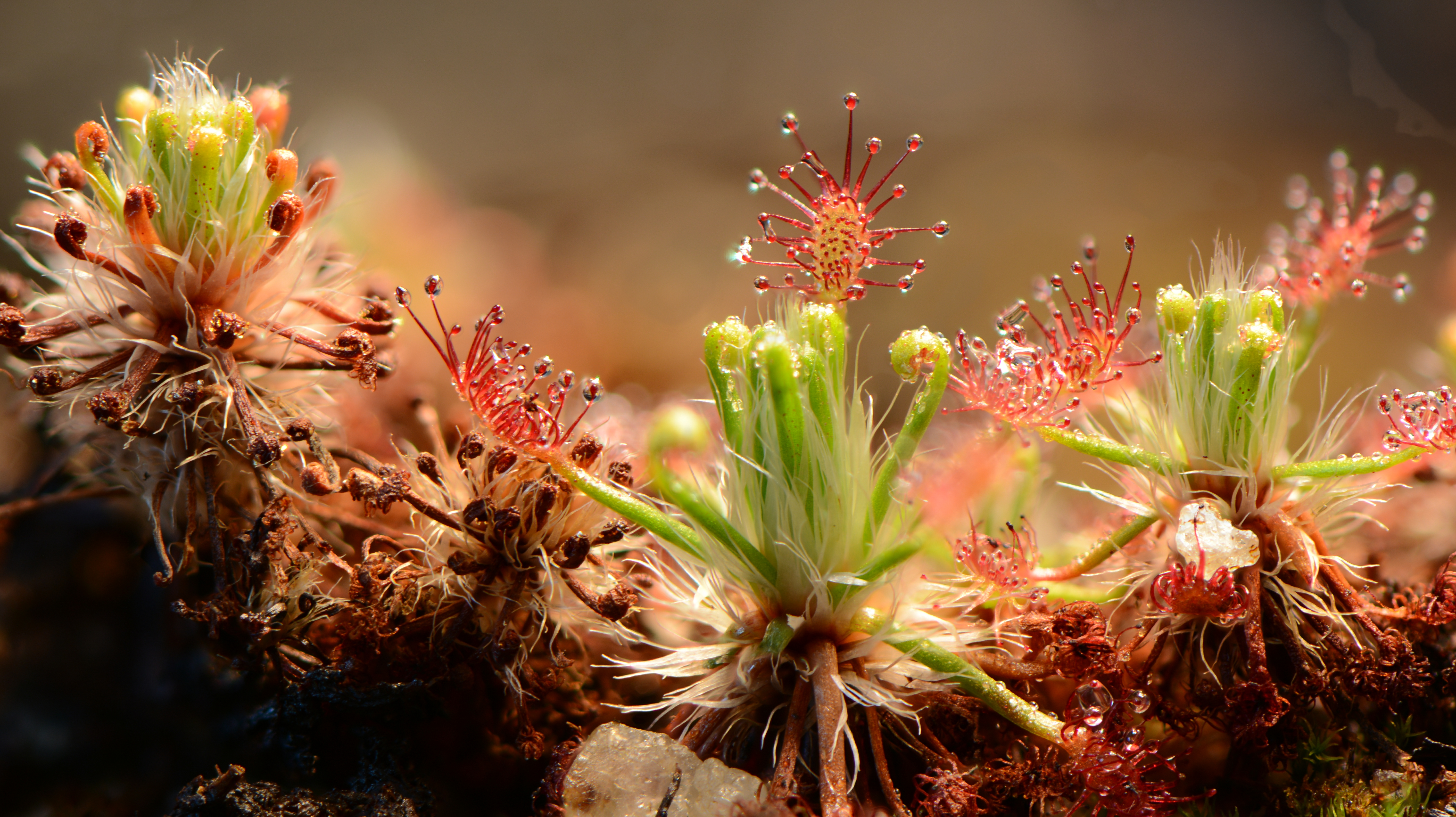 Closeup of drosera meristocaulis